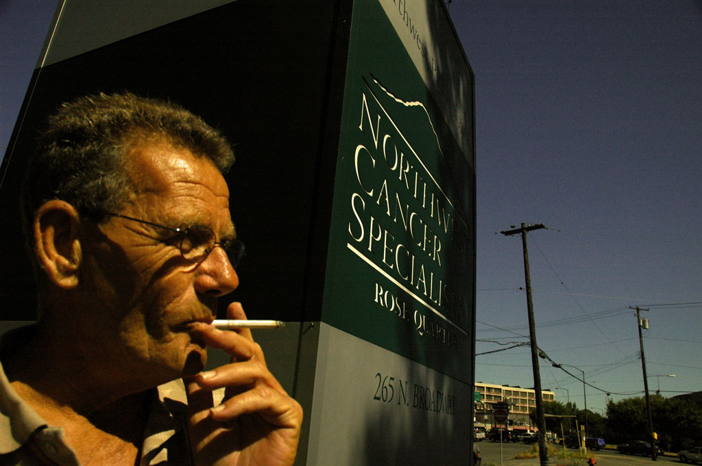 I took this photograph and I release it to the public domain.Plowboylifestyle 18:25, 9 November 2005 (UTC)